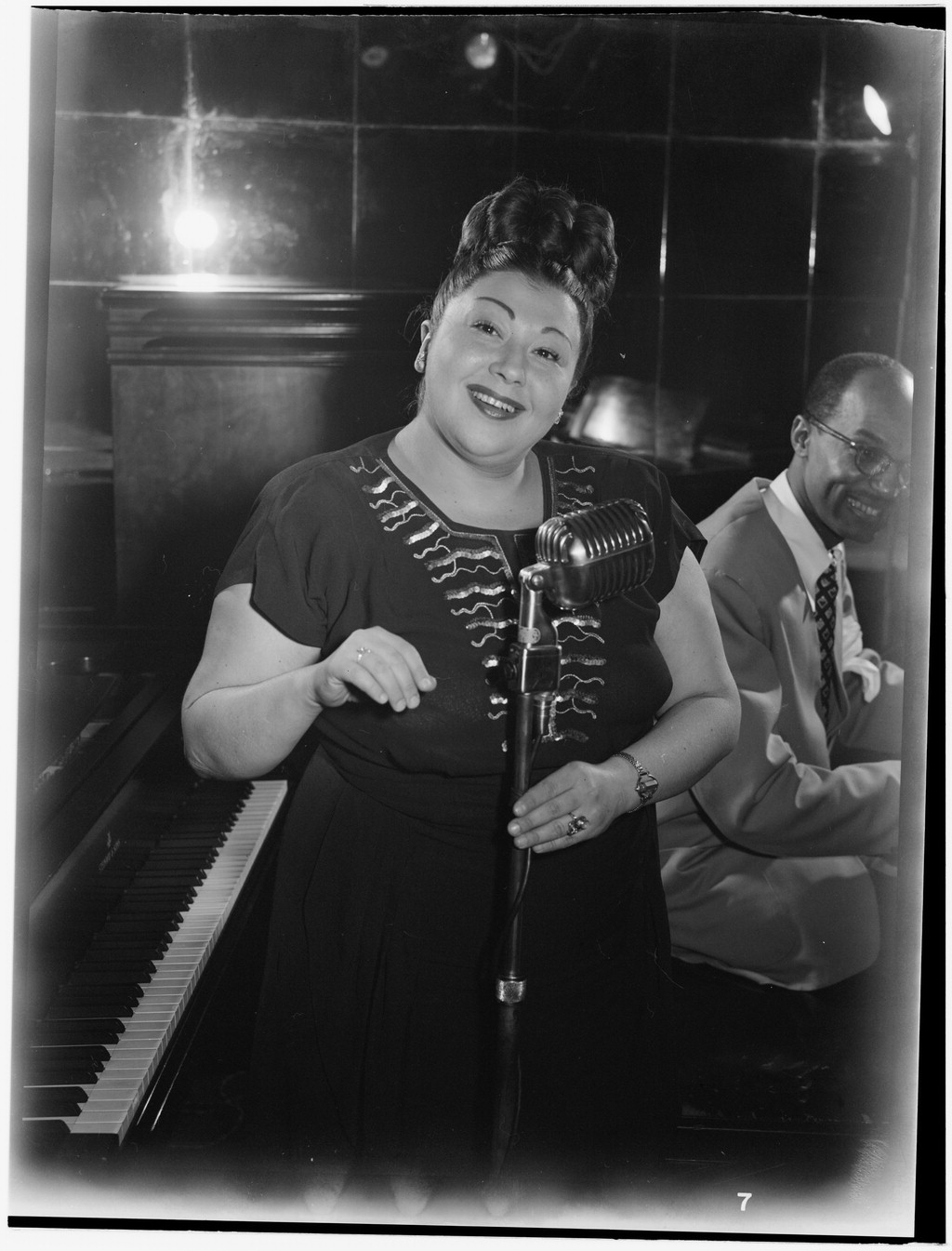 Gottlieb, William P., 1917-, photographer. [Portrait of Sylvia Syms and Bob Wyatt, New York, N.Y., between 1946 and 1948] 1 negative : b&w ; 3 1/4 x 4 1/4 in. Notes: Gottlieb Collection Assignment No. 299 Reference print available in Music Division, Library of Congress. Purchase William P. Gottlieb Forms part of: William P. Gottlieb Collection (Library of Congress). Subjects: Syms, Sylvia Wyatt, Bob Jazz musicians--1940-1950. Women jazz musicians--1940-1950. Jazz singers--1940-1950. Pianists--1940-1950. Format: Portrait photographs--1940-1950. Cityscape photographs--1940-1950. Film negatives--1940-1950. Rights Info: Mr. Gottlieb has dedicated these works to the public domain, but rights of privacy and publicity may apply. Repository: (negative) Library of Congress, Prints & Photographs Division, Washington D.C. 20540 USA, (reference print) Library of Congress, Music Division, Washington D.C. 20540 USA, Part Of: William P. Gottlieb Collection (DLC) 99-401005 General information about the Gottlieb Collection is available at Persistent URL: Call Number: LC-GLB23- 0829